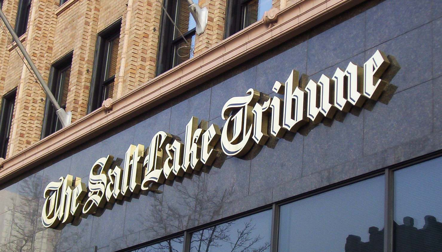 The marquis of the Tribune Building in Salt Lake City. Taken by me 12-18.